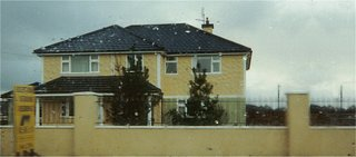 A house in Breaffy.